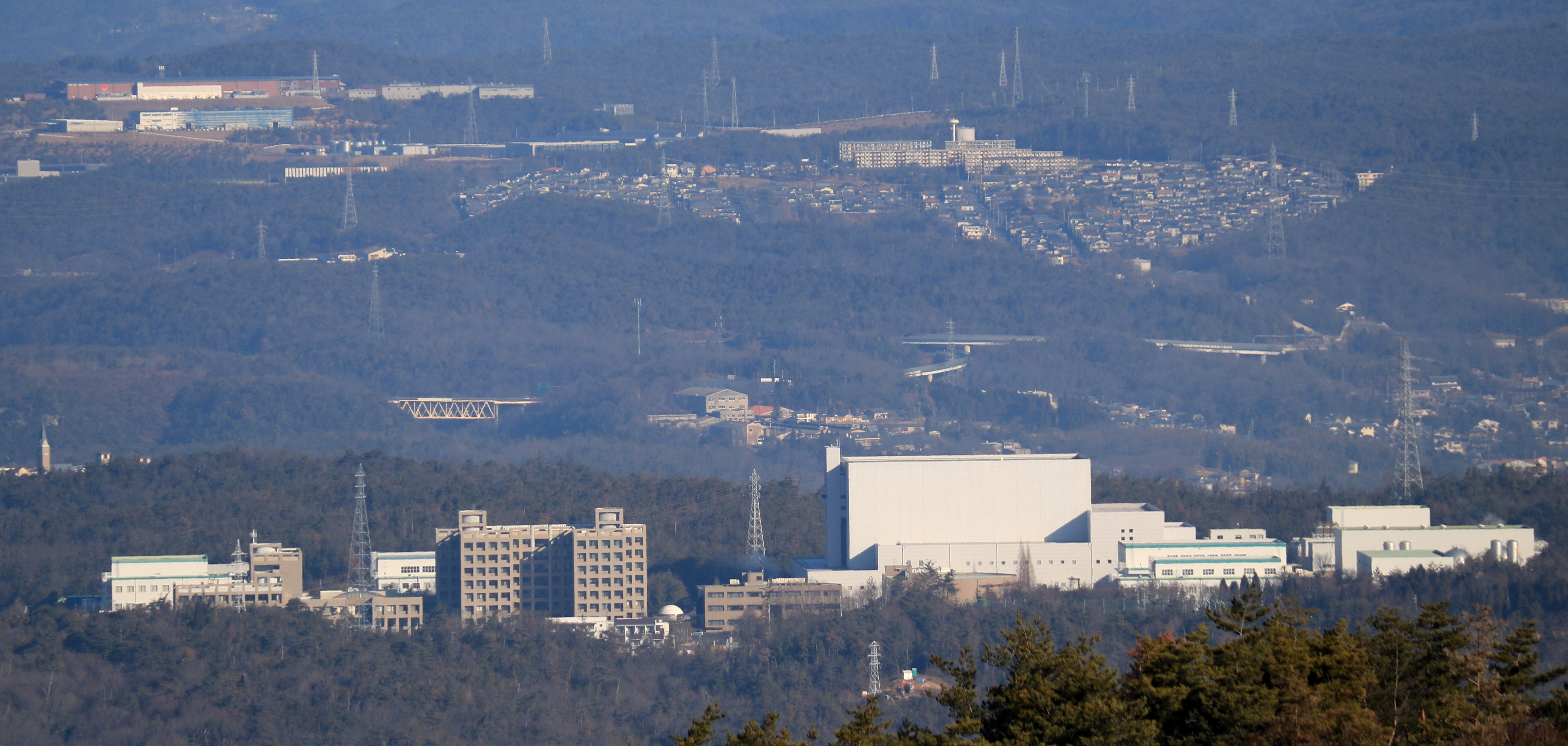 National Institute for Fusion Science in Toki, Gifu prefecture, Japan.